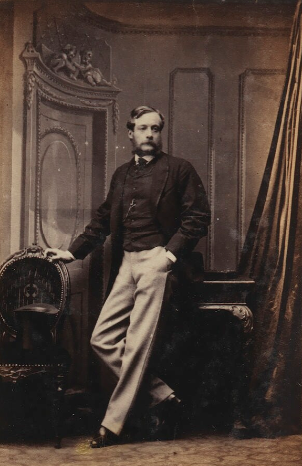 Portrait of Thomas Durell Powell Hodge (1835–1888), English supporter of Garibaldi and barrister.